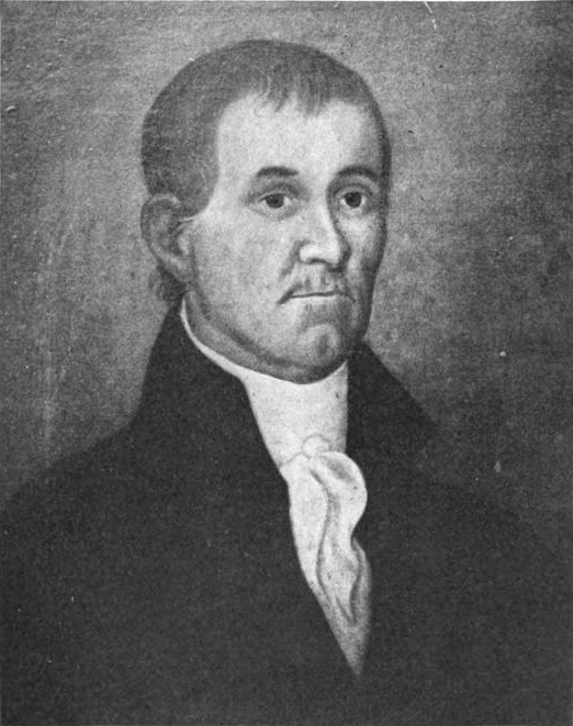 Engraving of a portrait of Continental Army soldier Ezra Lee, best known as the pilot of the Turtle, the first submarine used in combat.